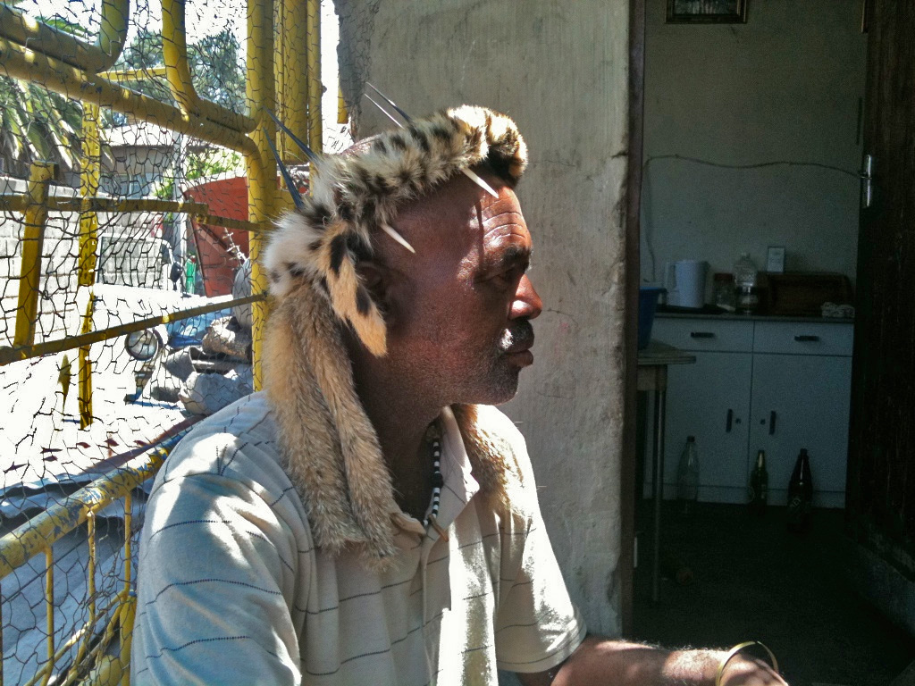 Inyanga Baba Sylvester of Alexandra, Johannesburg